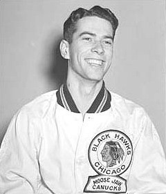 A young Bert Olmstead, in a Moose Jaw Canucks jacket, somewhere between 1944 and 1946.